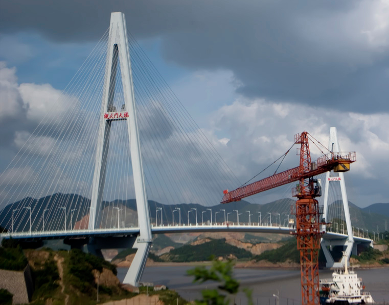 The Taoyaomen Bridge in Zhoushan, Zhejiang Province, China